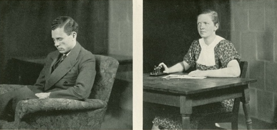 Mr. Zirkle and Miss Ownbey who performed an ESP experiment at Duke University.